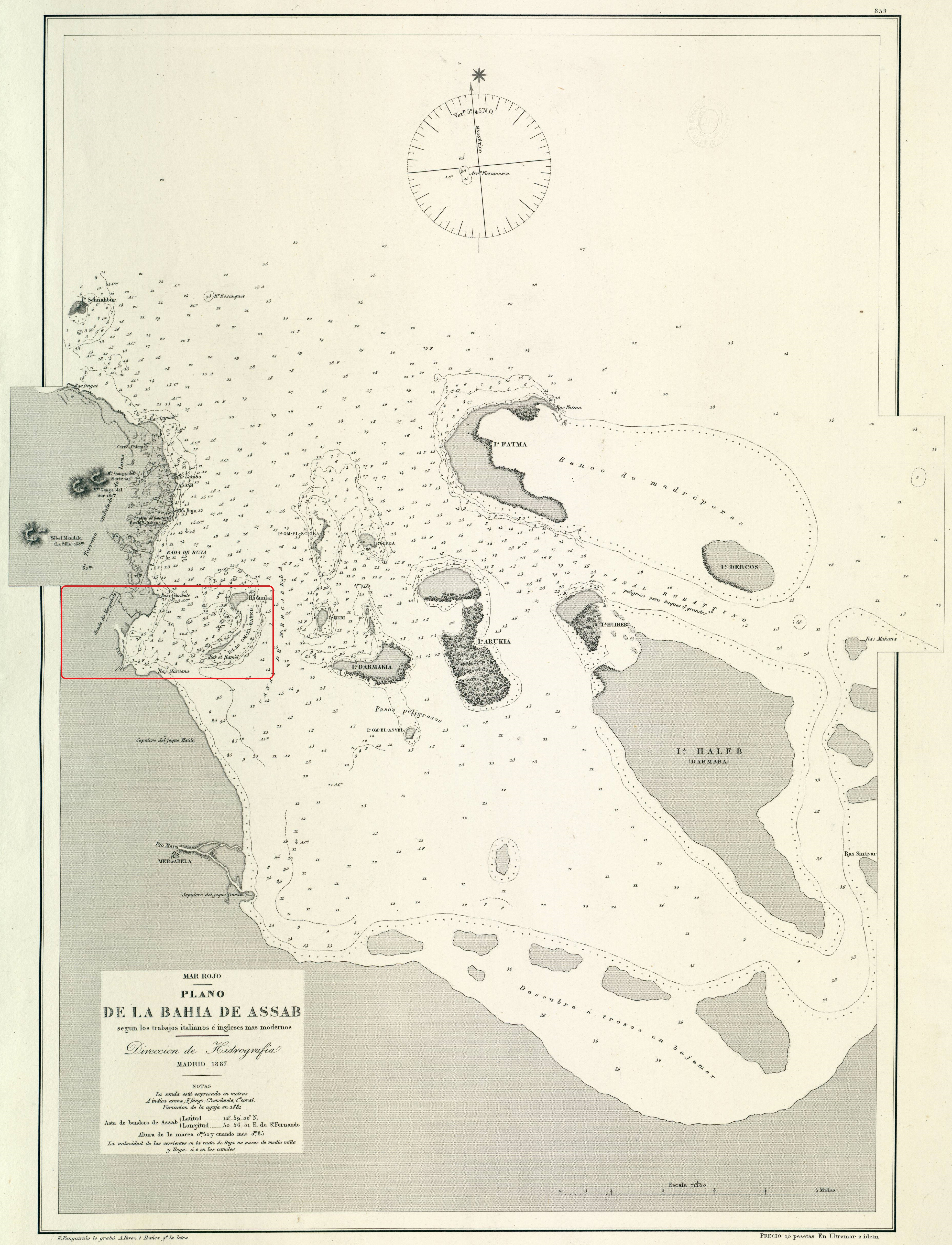 The Bay of Assab in 1:71,200 scale; based on Italian and English maps. (The area that Italy promised to cede to Spain is marked in red.)